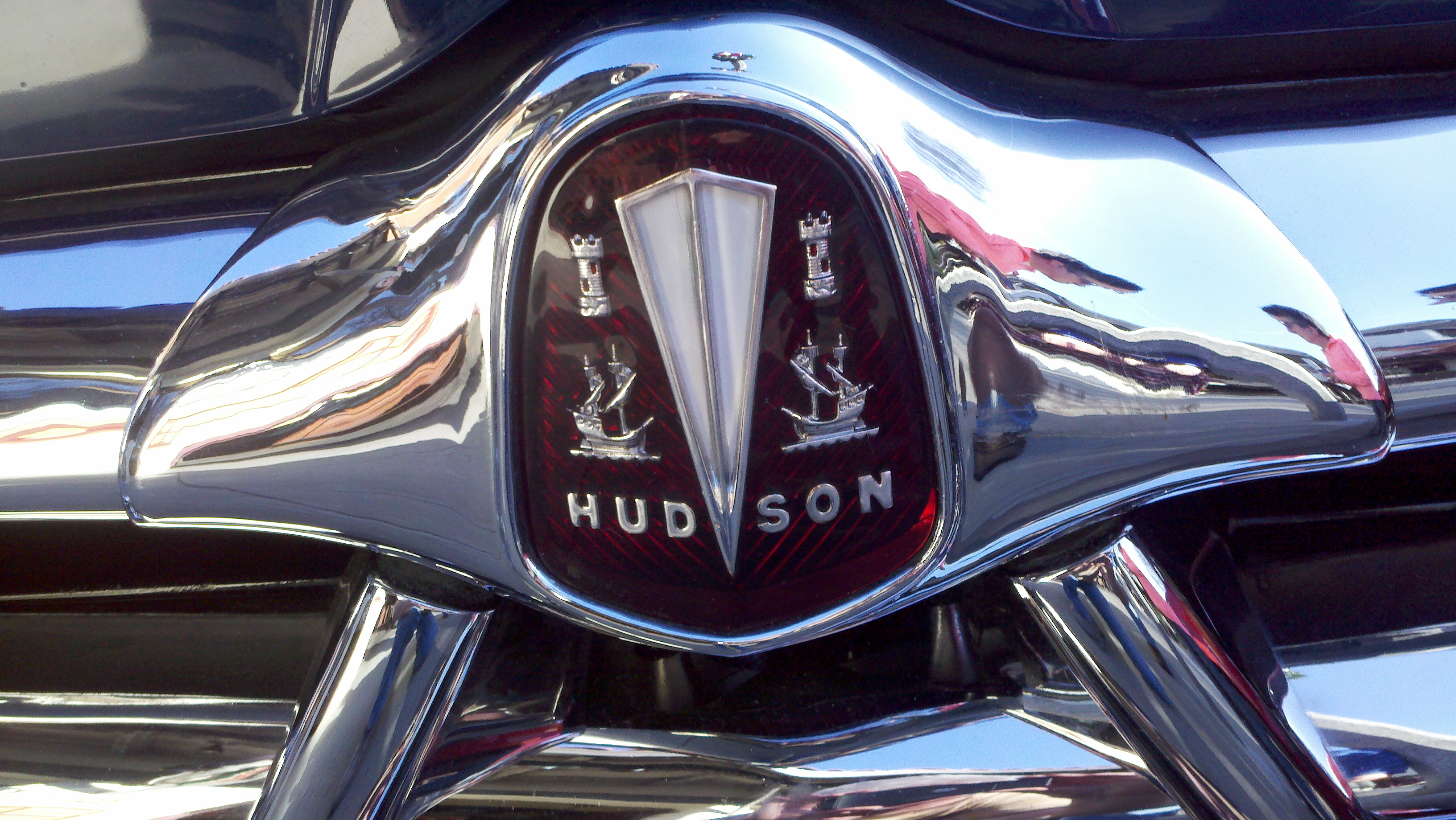 Decorative hood ornament of a Hudson Hornet in Sonoma, California